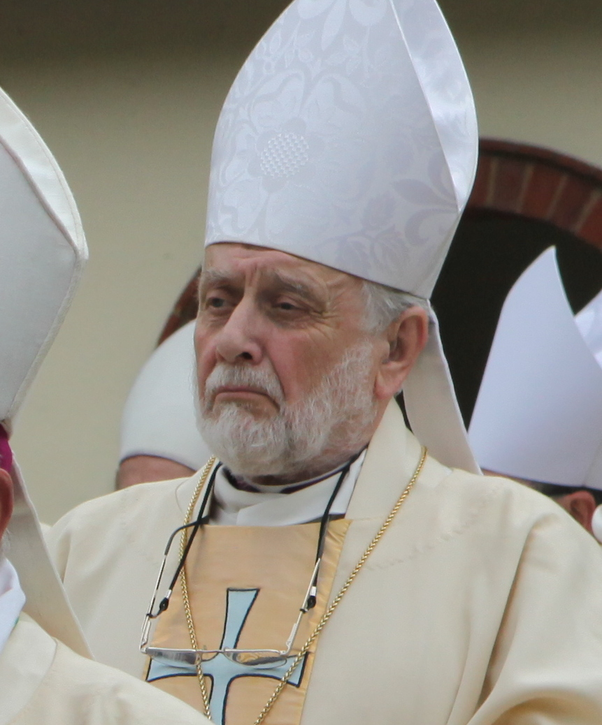 Procession of Bishops at Walsingham